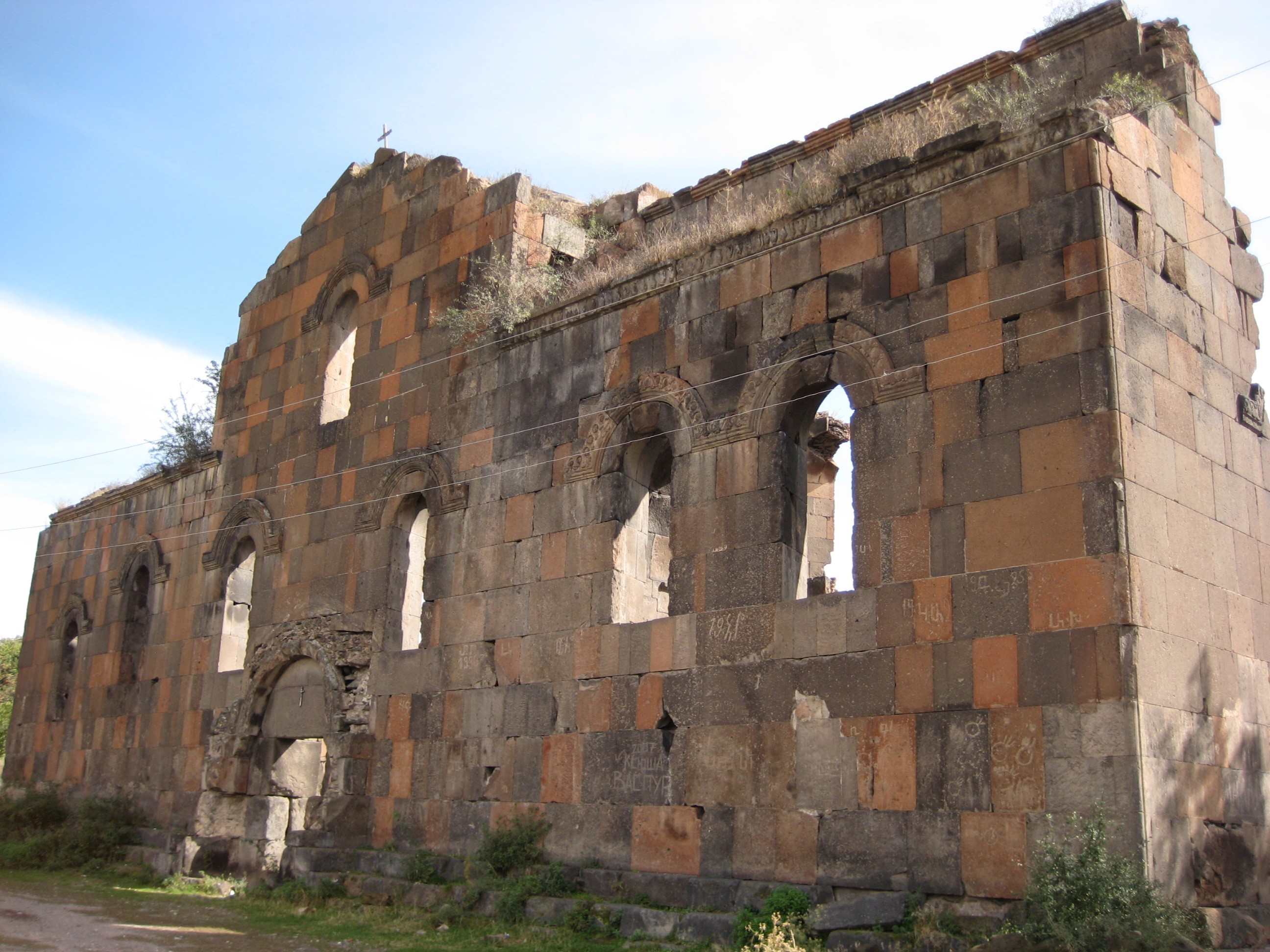 Front facade of Ptghavank. 54/5